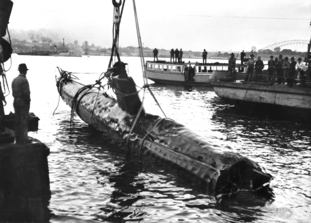 June 1, 1942. A Japanese Ko-hyoteki class midget submarine, believed to be the vessel known as Midget No. 14, is raised from the bed of Sydney Harbour. The night before the picture was taken, the submarine's two crew members were part of a raid on shipping in Sydney Harbour.